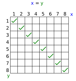 Equality relation